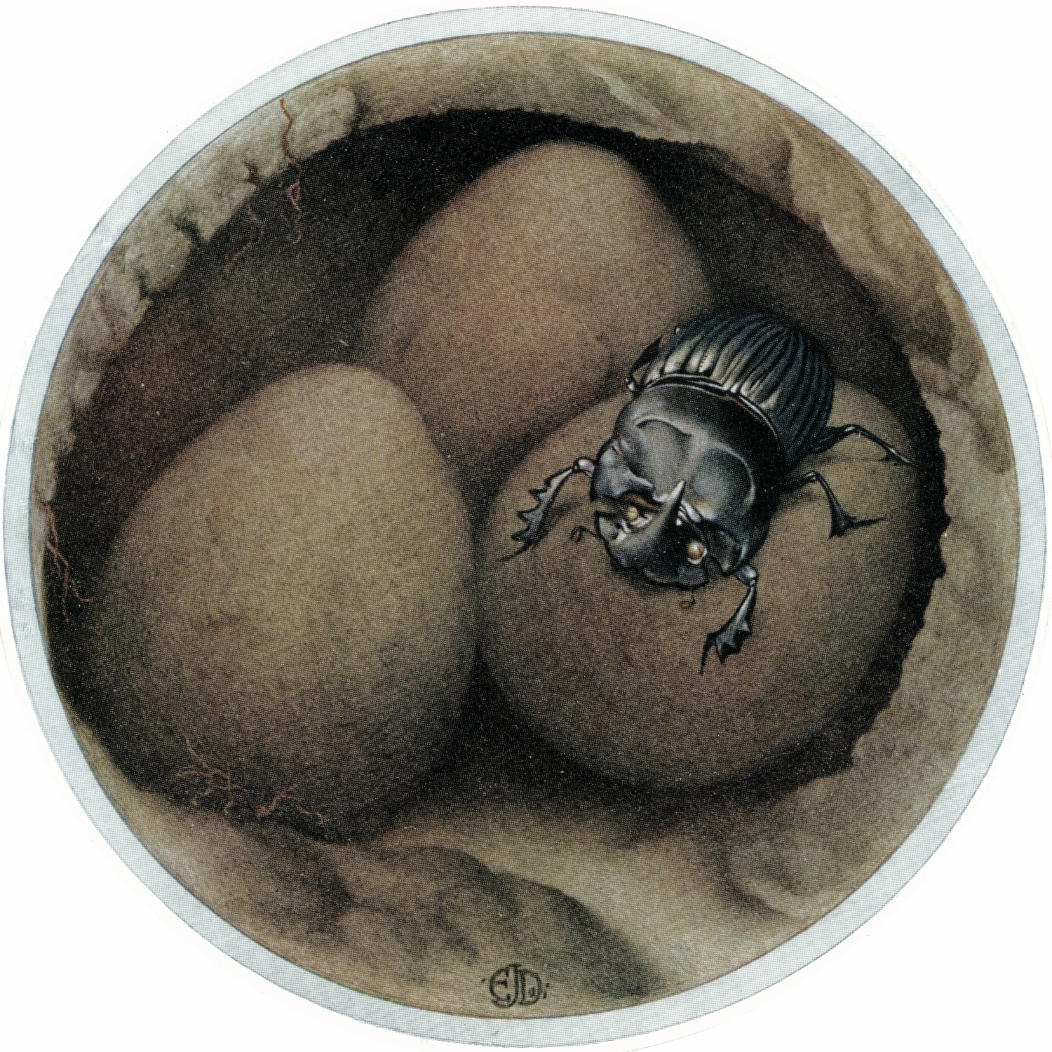 Plate from Fabre's book of Insects